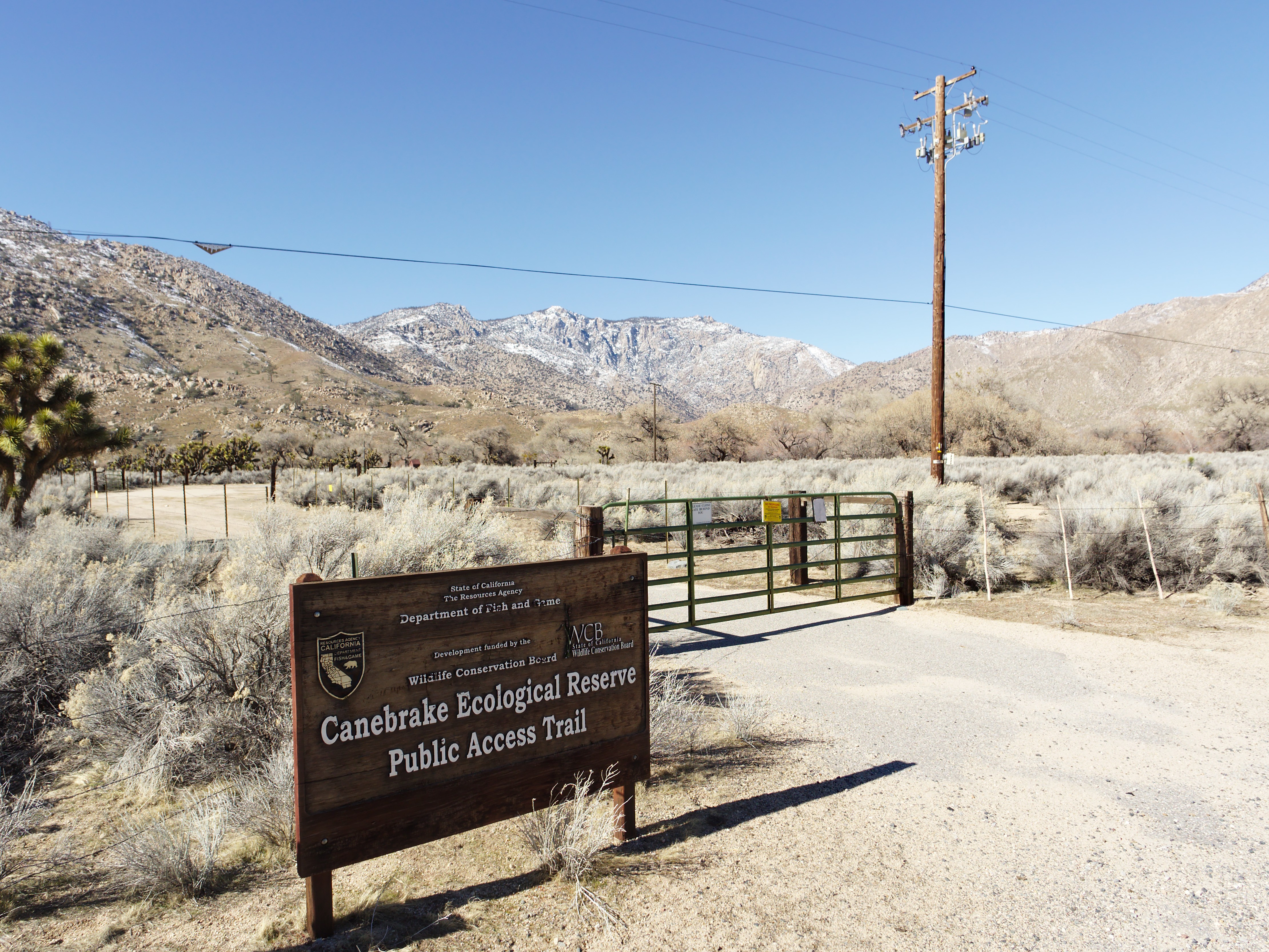 Entrance to the "Public Access Trail" of the Canebrake Ecological Preserve, which is not in fact open to the public (note the "No Tresspassing" sign).